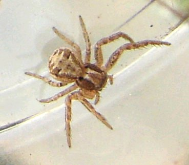 Xysticus cristatus (body length ca. 3mm) from a meadow bordering a forest in Nettersheim, Germany. Wikispecies has an entry on: Xysticus cristatus